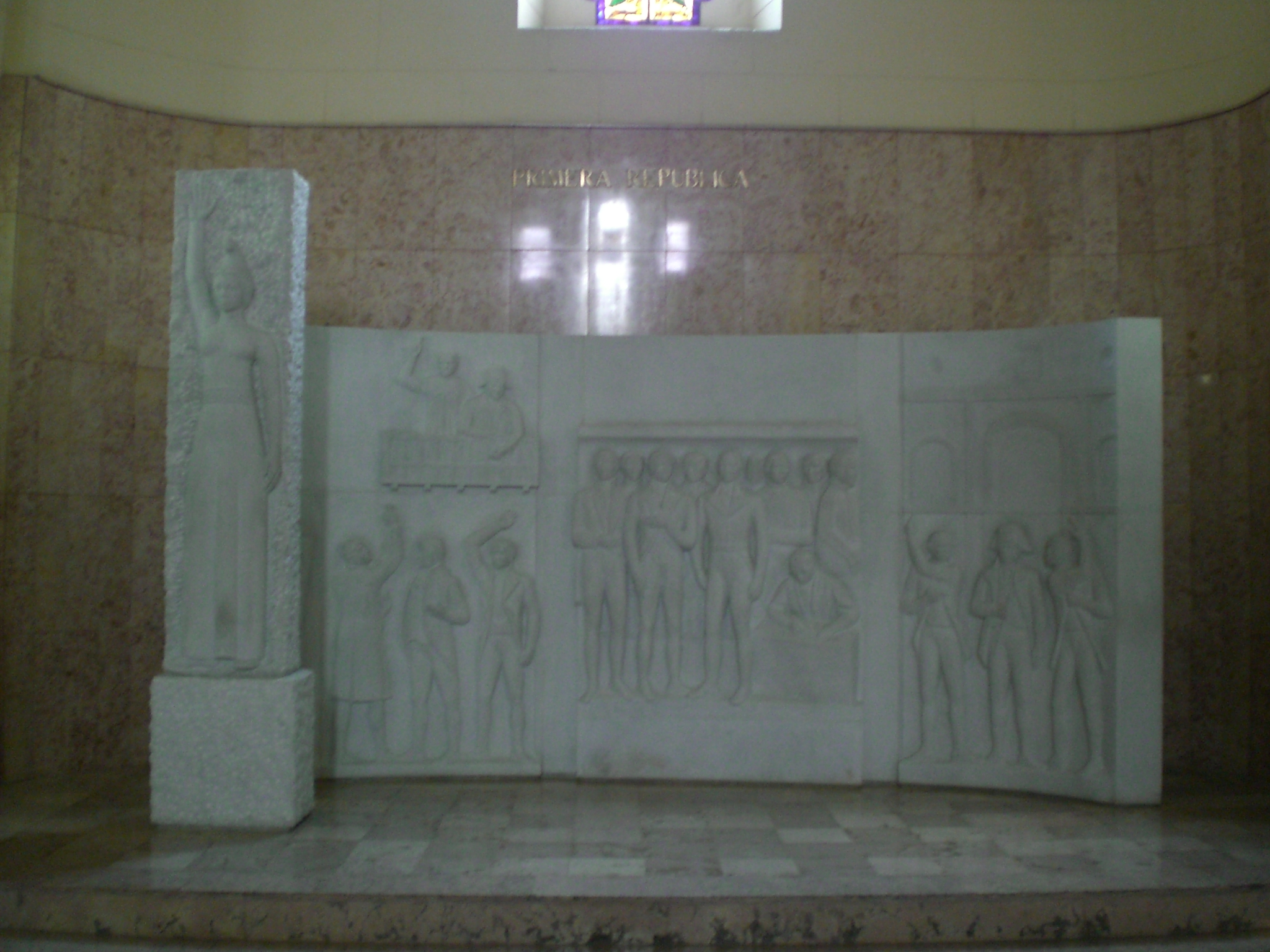 1st Republic monument at the National Pantheon.